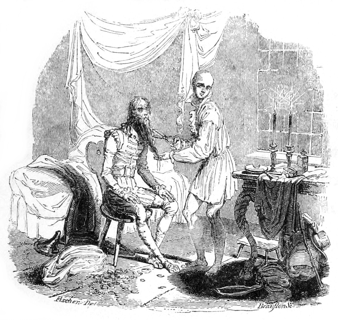 "The Spectre Barber". Engraving by Allen Robert Branston of a drawing by John Fischer for Popular Tales and Romances of the Northern Nations (1823).